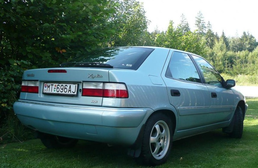 Xantia X2 HDi Seduction 1999 Limited Edition